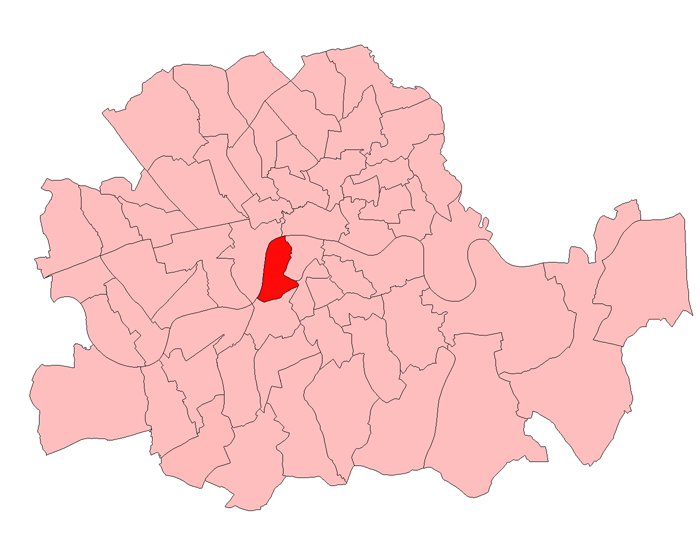 A map of Lambeth North constituency within the London County Council area as it existed from 1918 to 1949.